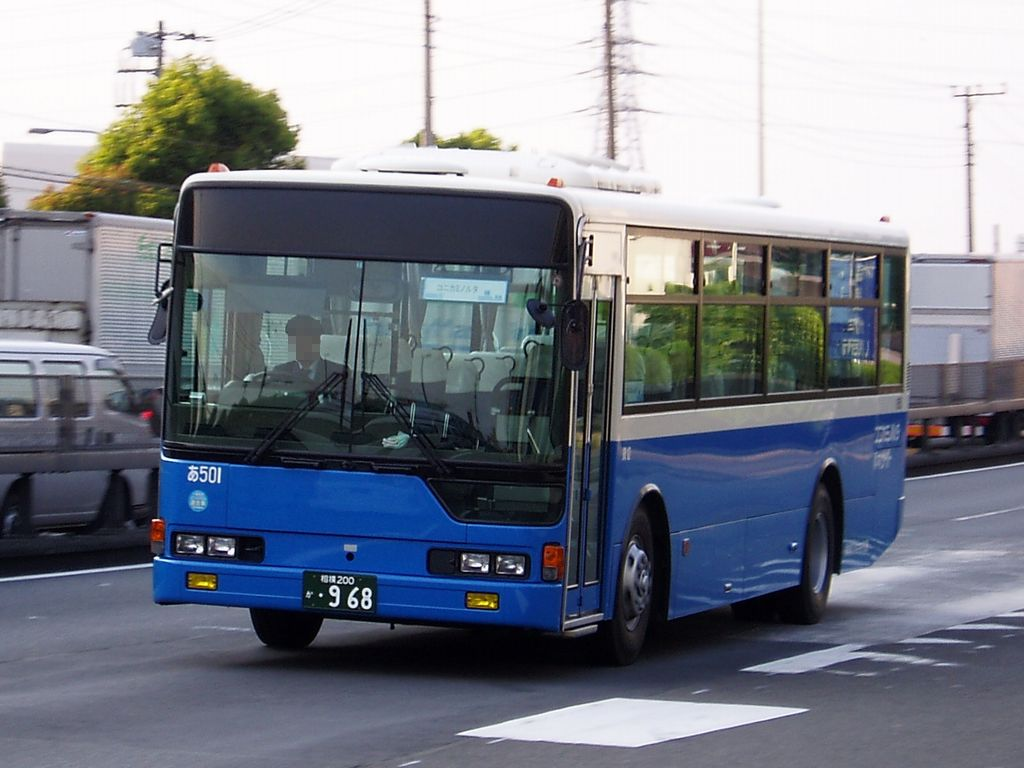 Kanagawa Chuo Kotsu A501 Charter Bus Mitsubishi KL-MP35JM at Atsugi City